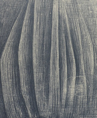 Harry Bertoia - Fifty Drawings #18 Private Collection